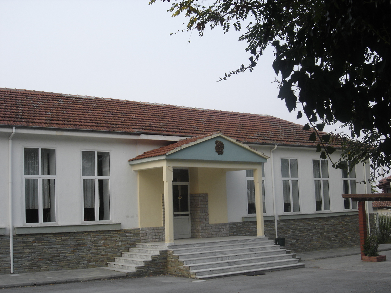 The Primary School of Dion.